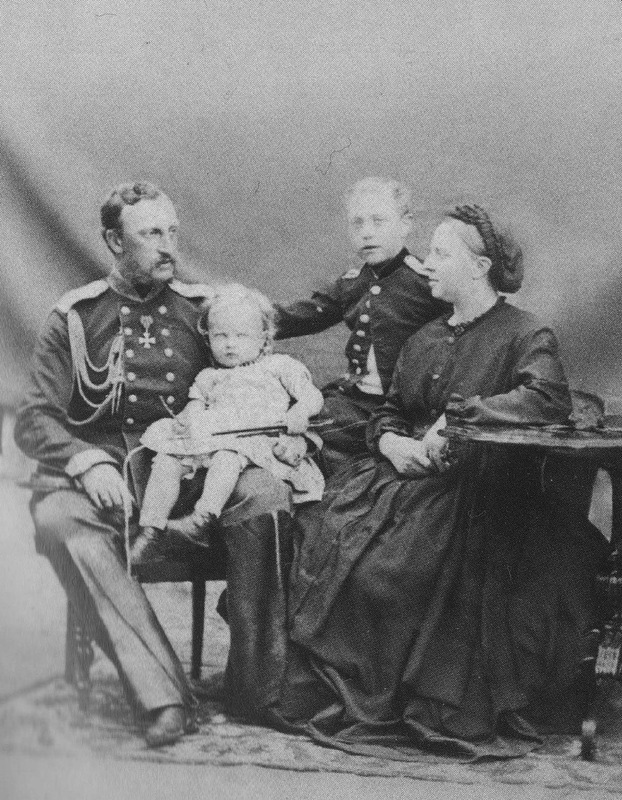 Grand Duke Nicholas Nicholaievich with his wife Grand Duchess LAexandra Petrovna and their two children.